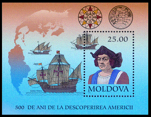 Stamp of Moldova